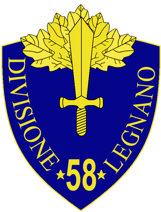 58a Divisione Fanteria Legnano insignia, Regio Esercito, Italy, WWII